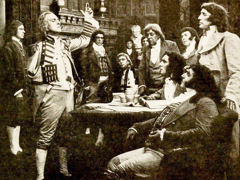 Film still used as illustration in article by "photoplay writer" Edwin M. La Roche providing historical context to Edison Studios' one-reel production The Battle of Trafalgar, a lost film that was released in September 1911 and starred Sydney Booth (arm raised) as British Admiral Horatio Nelson; published in The Motion Picture Story Magazine (New York, N.Y), September 1911, p. 89; original caption to image reads "Planning The Battle"; Nelson is shown discussing his plan of attack at a meeting with the Naval and Civil Lords of the Board of Admiralty in London prior to the battle at Trafalgar.